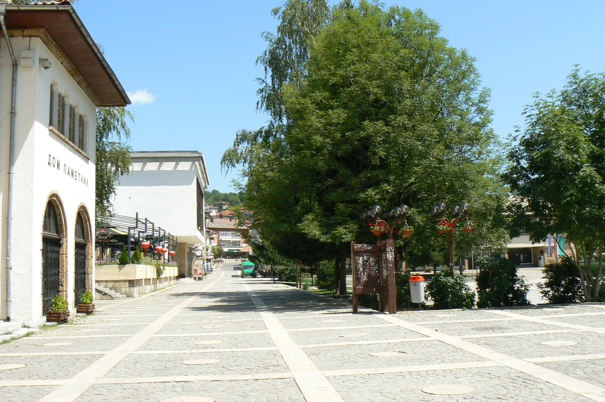 The centre of Teteven, Bulgaria